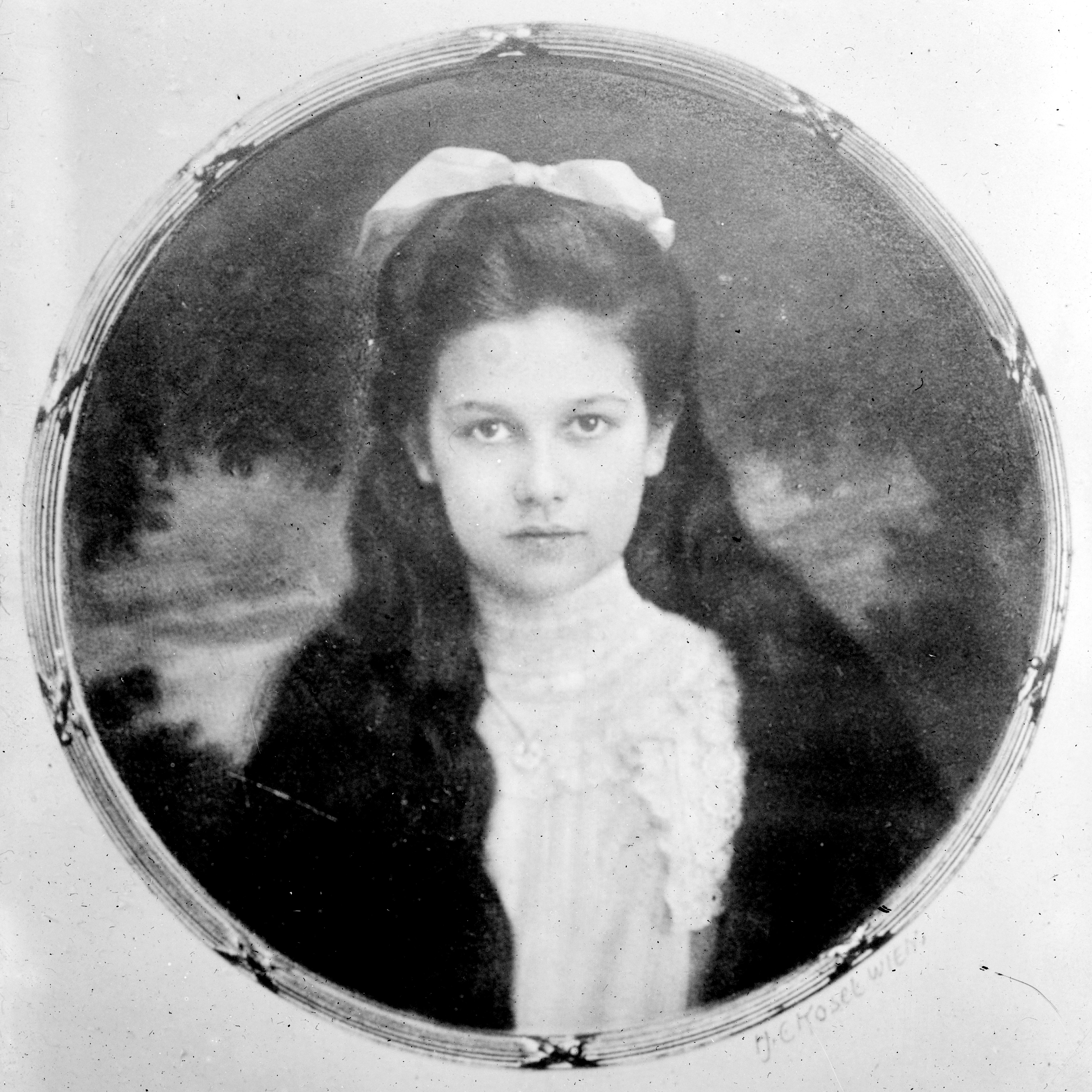 Princess Sophie von Hohenberg of Austria, daughter of Archduke Franz Ferdinand (image has been altered by User:Sardaka for darkening and sharpening, 2015-6-1)